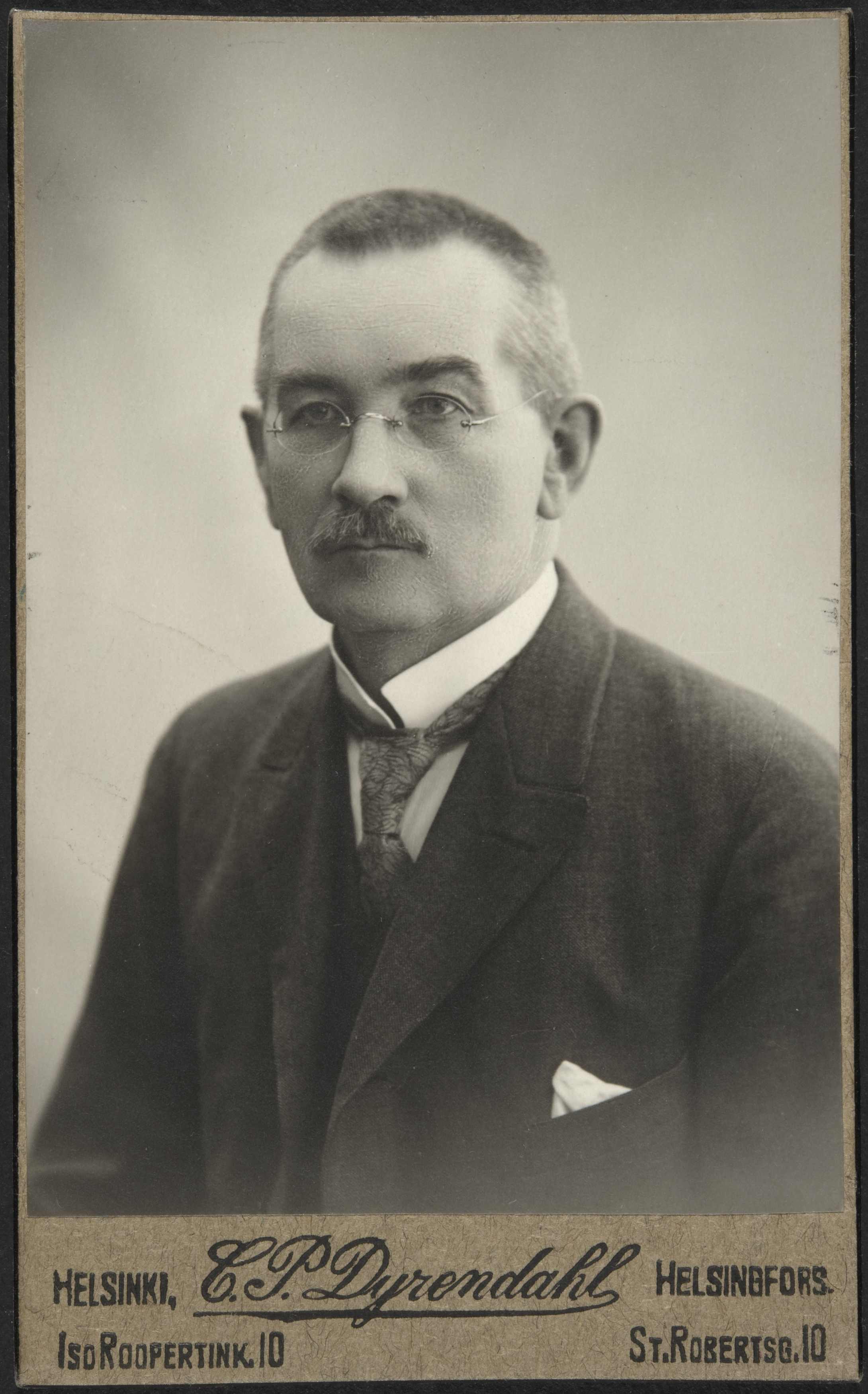 Photograph